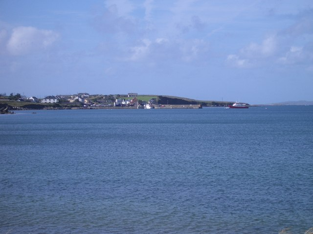 Cleggan Bay, looking towards Cleggan Taken from the north side of the bay towards Cleggan and the ferry quay for Inishbofin